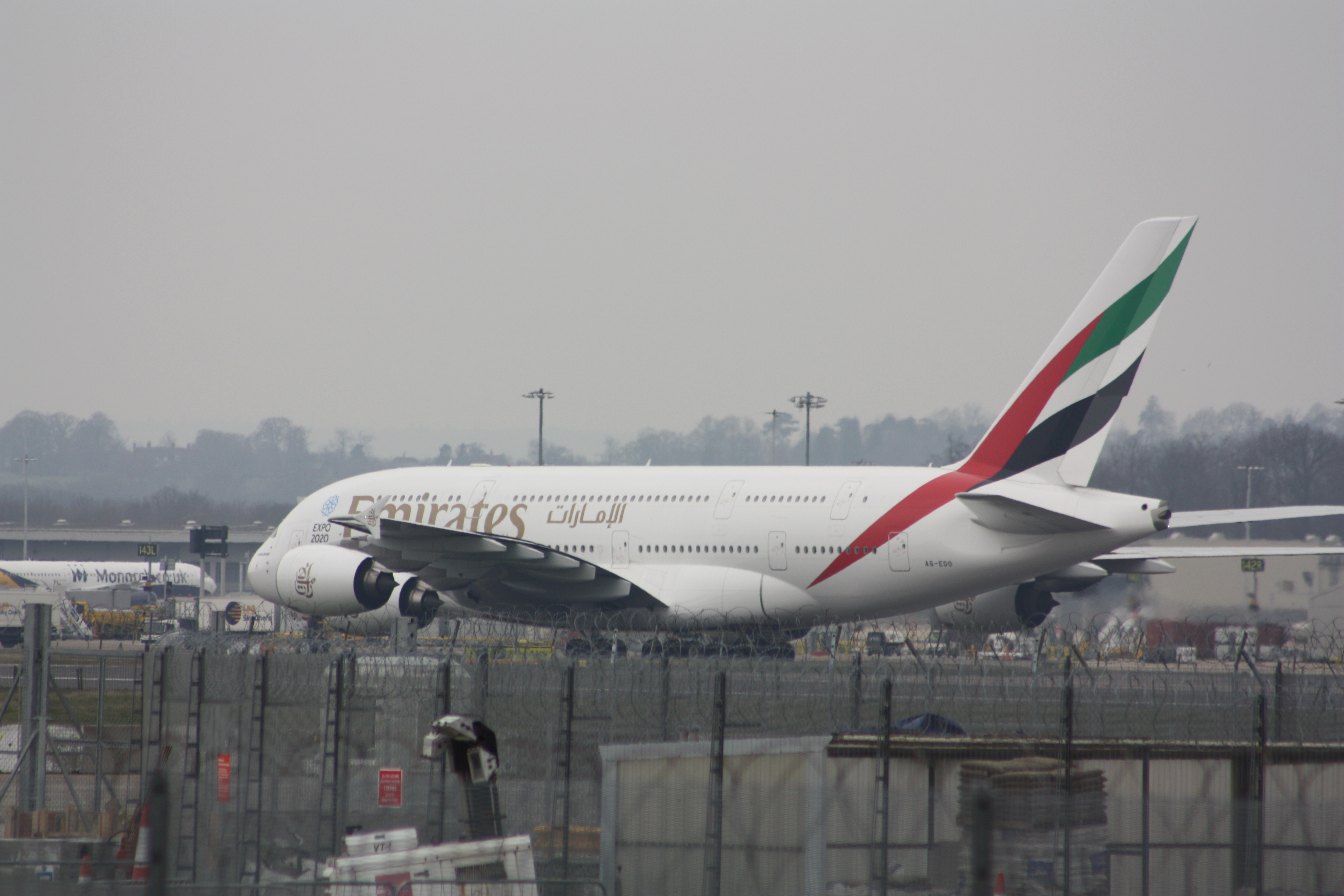 Emirates Airlines Airbus A380 A6-EDO at Gatwick 26/03/13